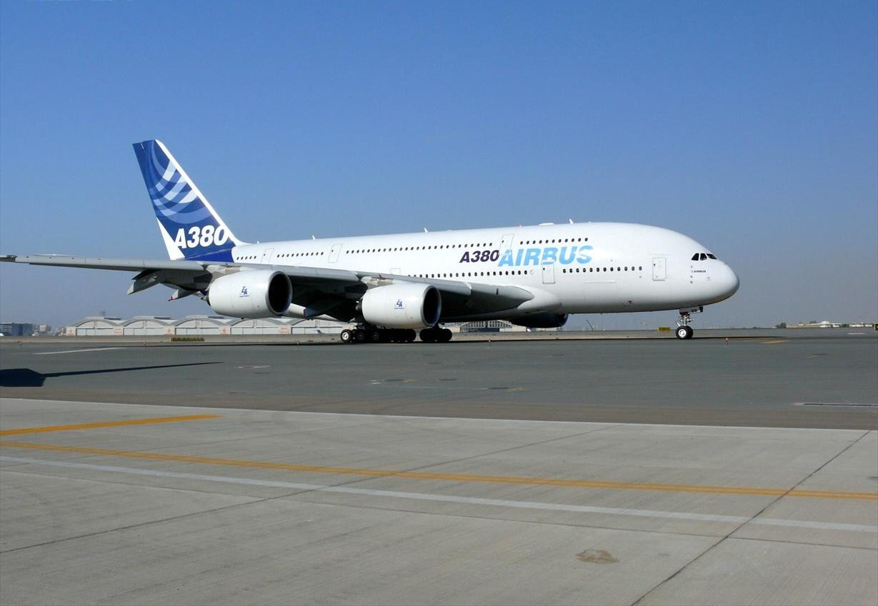 This is a photo of the Airbus A380 on the runway at Dubai International Airport in Dubai, United Arab Emirates for the Dubai Airshow 2007 on 11 November 2007. The plane is about to take off.